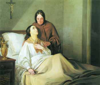 Tadeusz Górecki (1825-1868), Polish painter „Przy łożu umierającej”